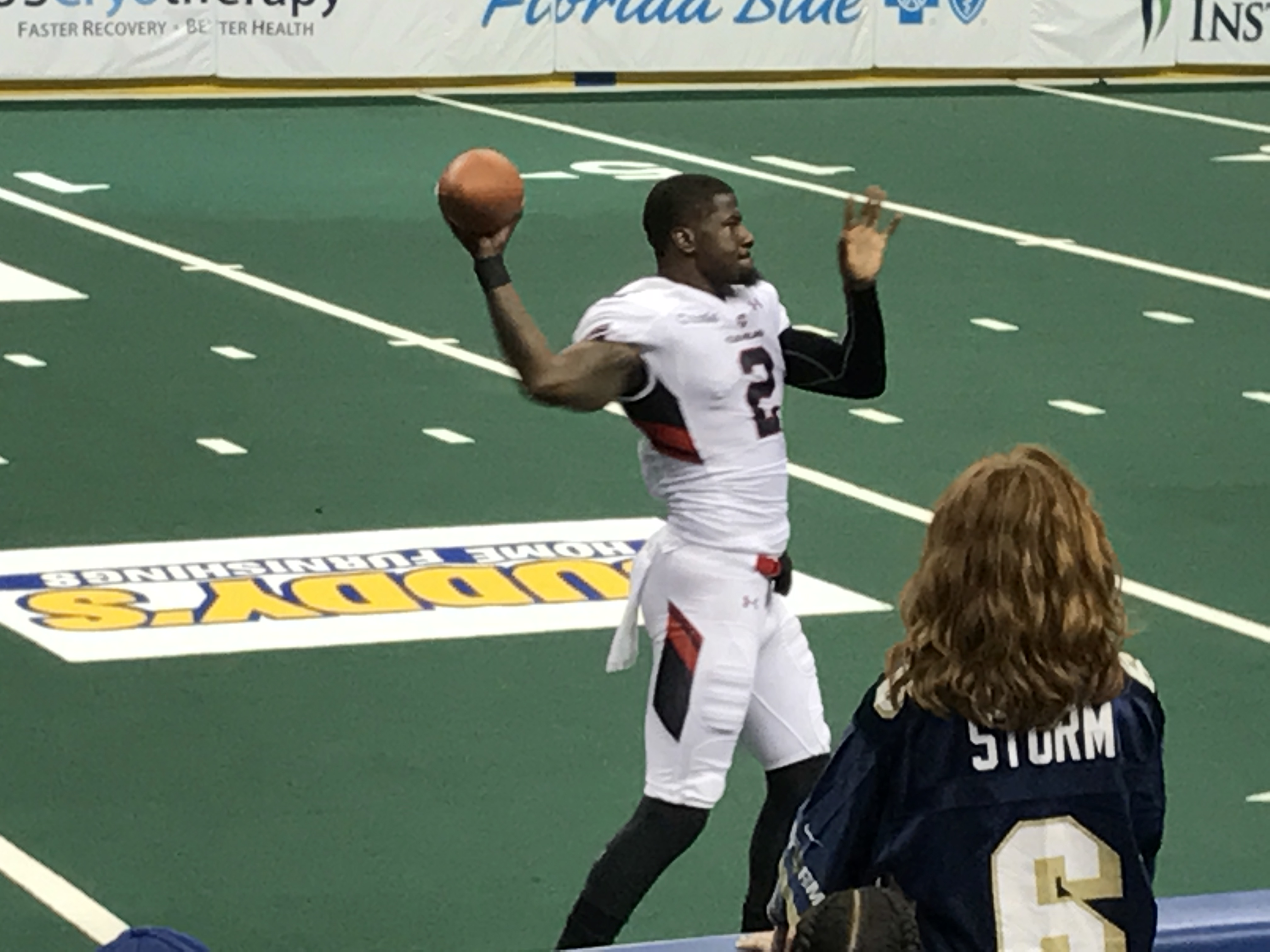 Arvell Nelson warming up